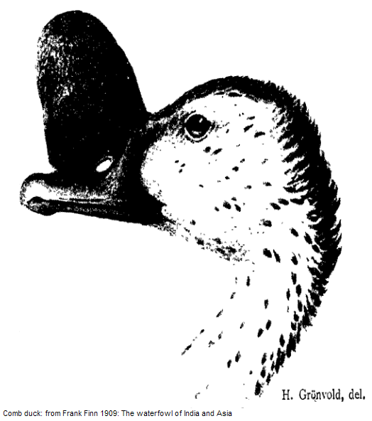 Comb duck Sarkidiornis melanotos head by H. Gronvold in Frank Finn, Game birds of India